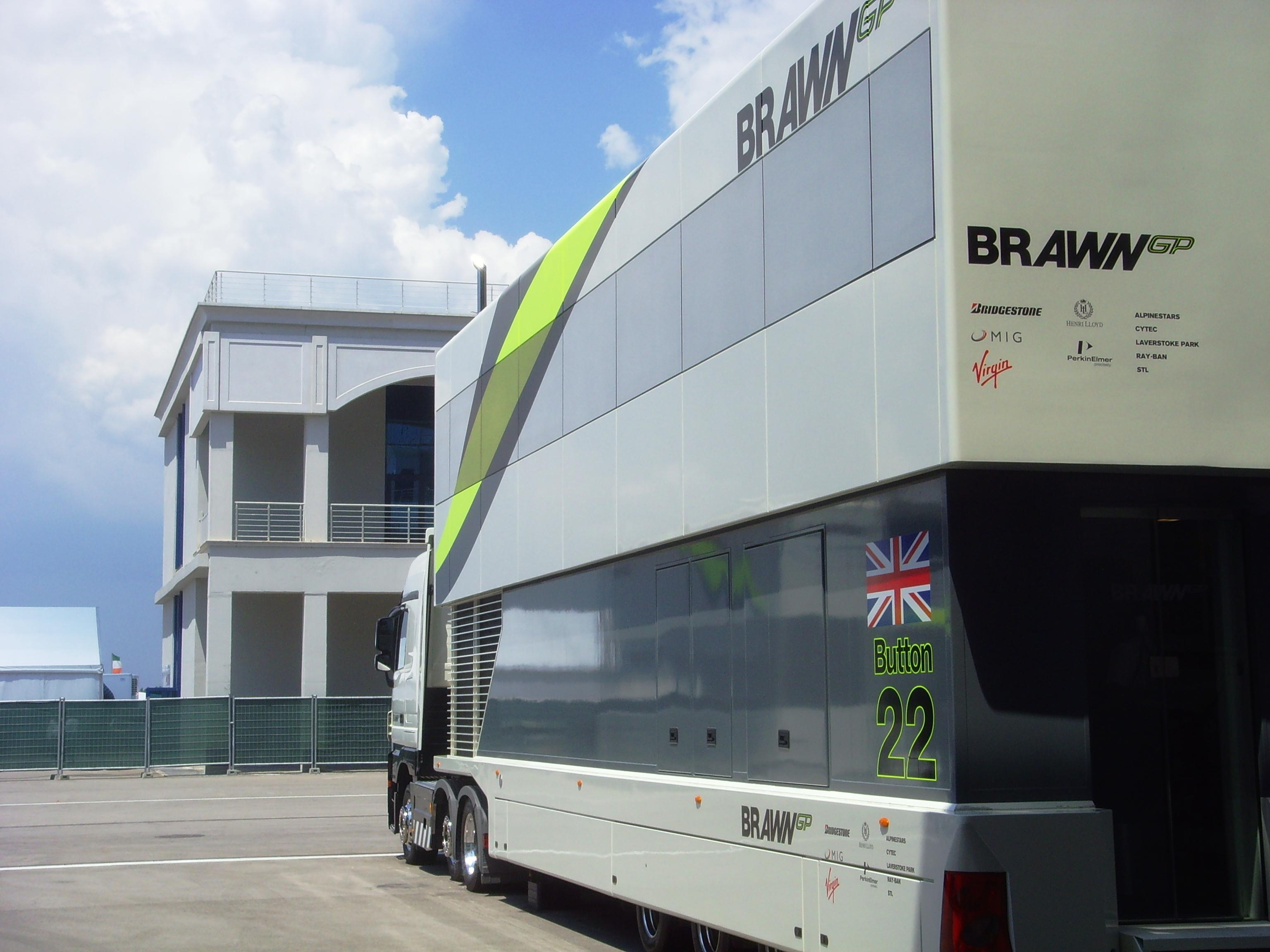 One of the Brawn GP trucks on Istanbul Park's paddock during 2009 Turkish Grand Prix weekend.